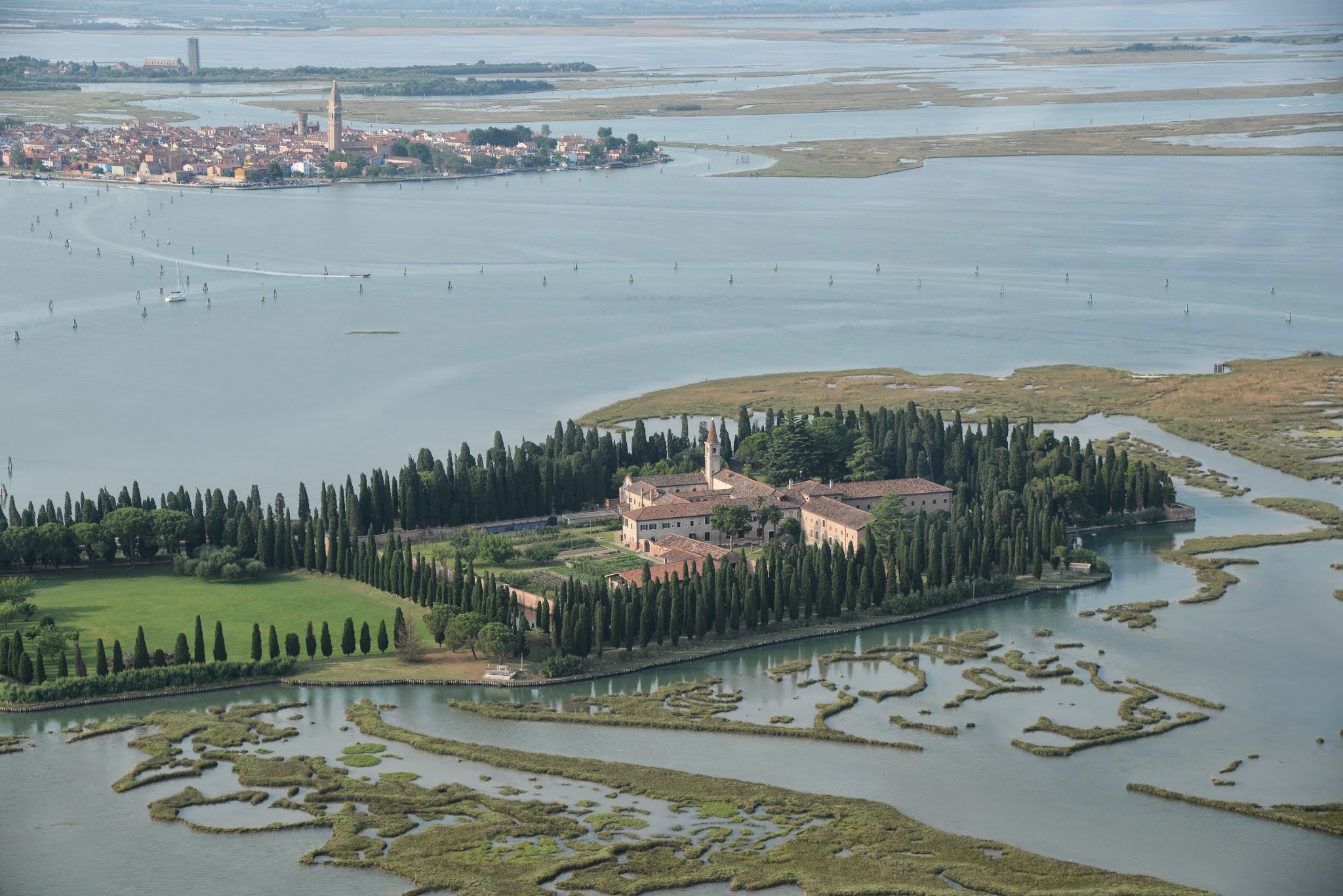 Aerial photographs of Venice